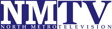 NMTV's Logo used from 2006 until Present.